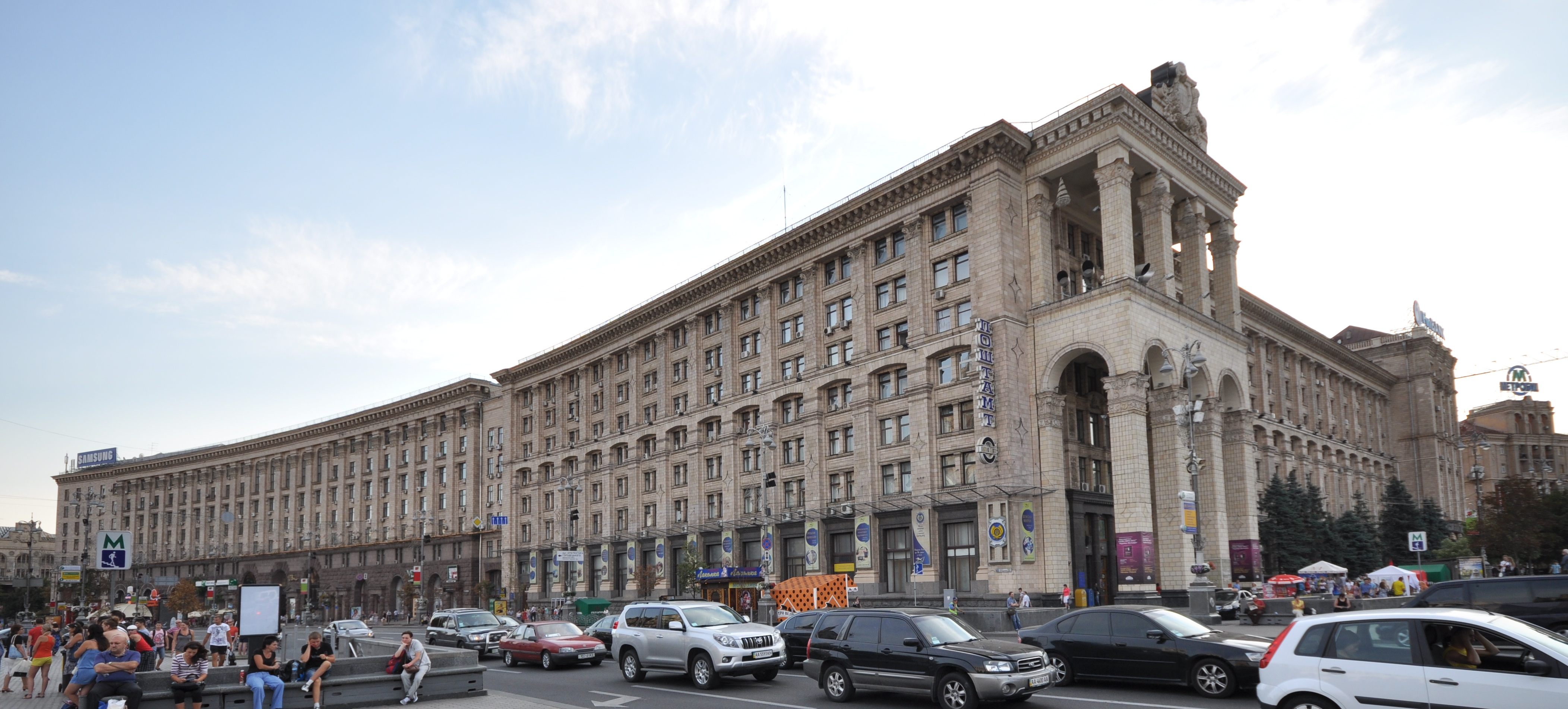 Khreshchatyk is the main street of Kiev, Ukraine. The street has a length of 1.2 km. It stretches from the European Square (northeast) through the Maidan and to Bessarabska Square (southwest) where the Besarabsky Market is located. Along the street are located buildings of the Kiev City Administration which contains both the city's council and the state administration, the Main Post Office, the Ministry of Agrarian Policy, the State Committee of Television and Radio Broadcasting, the Central Department Store (TsUM), the Besarabka Market, the Ukrainian House, and others. The entire street was completely destroyed during World War II by the retreating Red Army and rebuilt in the neo-classical style of post-war Stalinist architecture. Among prominent buildings that did not survive were the Kiev City Duma, the Kiev Stock Exchange, Hotel Natsional, the Ginzburg House, and others. The street has been significantly renovated during the modern period of Ukraine's independence. Today, the street is the administrative and business center of the city, as well as a popular place for Kievans. As of 2010, Khreshchatyk is included in the Top 20 of most expensive shopping streets in Europe